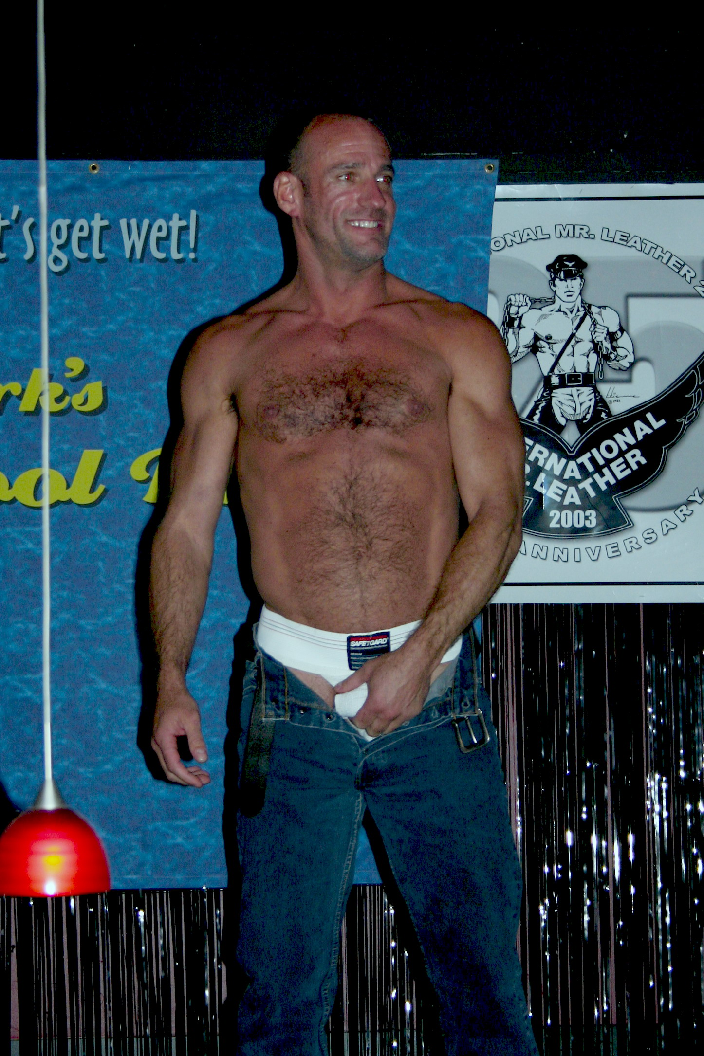 Will Clark's Bad Boys post-Grabby Recovery Brunch at the North End pub